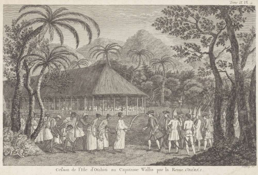 Title: Captain Samuel Wallis of HMS Dolphin being received by the Queen of Otaheite, July 1767. Type: Engraving. Description: Engraved by J. Hall for inclusion as plate xxii within John Hawkesworth's Voyages..in the Southern Hemisphere…, London: 1773. Location: National Library of Australia. Physical description: Plate mark 23.8 x 33 cm. Digital Versions: jpeg file